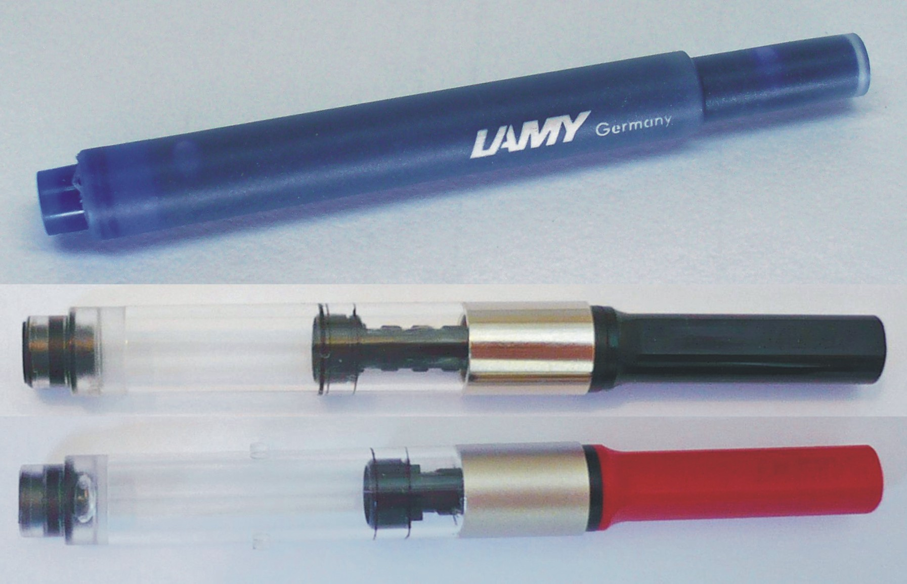 From top to bottom: Lamy Z 10 proprietary ink cartridge, Z 27 converter and Z 28 converter. The T 10 fountain pen ink cartridge has approximately 1.15 ml ink capacity. For using bottled fountain pen ink Lamy offers several proprietary piston operated converters. The Aion, Accent, CP 1, Dialog 3, Imporium, Linea, Logo, ST and Studio fountain pens can be fitted with the proprietary Z 27 converter for the premium line of fountain pens that has approximately 0.7 ml ink capacity. The ABC, AL-star, Joy, Nexx, Nexx M, Safari and Vista fountain pens can be fitted with the proprietary Z 24 or Z 28 converter that has approximately 0.7 ml ink capacity. The converters for the school/young writing line of fountain pens feature two protrusions that form fit into two arresting recesses in the grip sections of these pens.